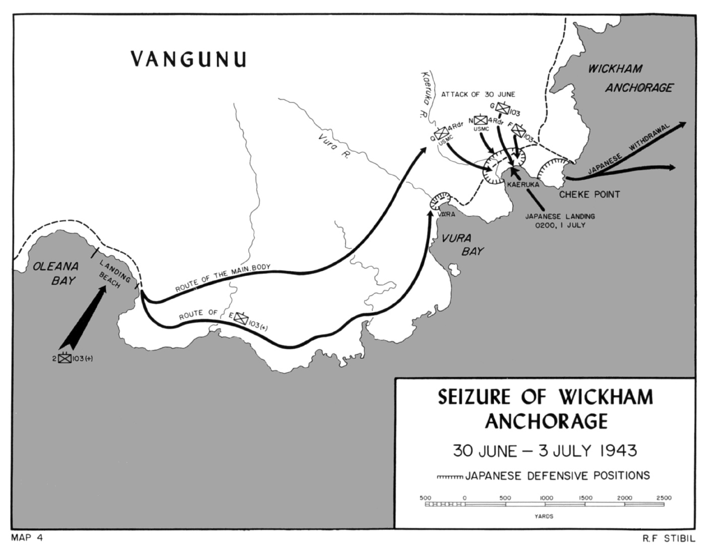 Map of the attack on Wickham Harbor, Vangunu Island, New Georgia island group, Solomon Islands, July, 1943.